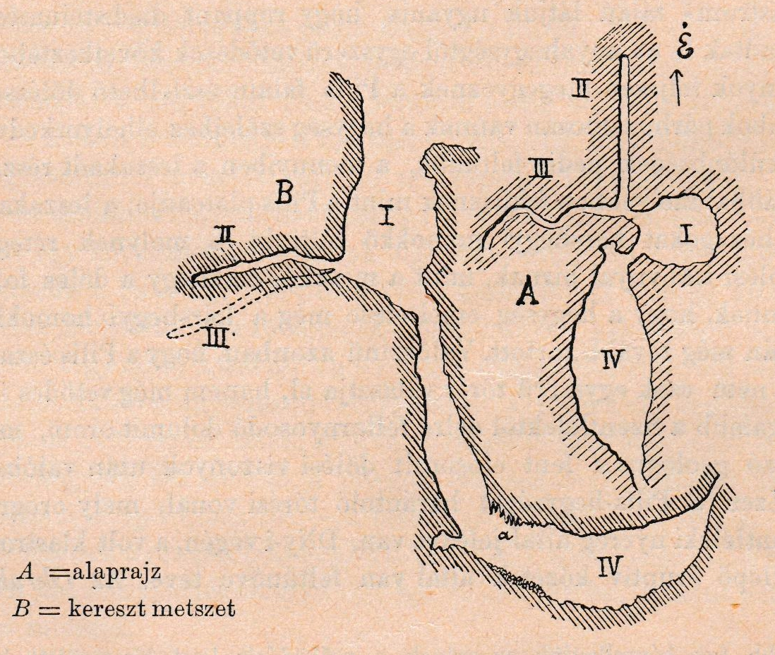 Map of Szoplák Devil's Hole by Ferenc Schafarzik.